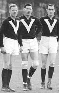 Prior to the start of an interstate match, against South Australia, at the Adelaide Oval, on Saturday, 2 July 1938. Victoria won the match by 43 points, 24.13 (157) to 16.18 (114). Ron Todd (Collingwood) kicked 9.3 (57). The Victorian Players shown here, from the left, are (a) Jim Park (Carlton), (b) Jack Dyer (Richmond), and(c) Phonse Kyne (Collingwood).